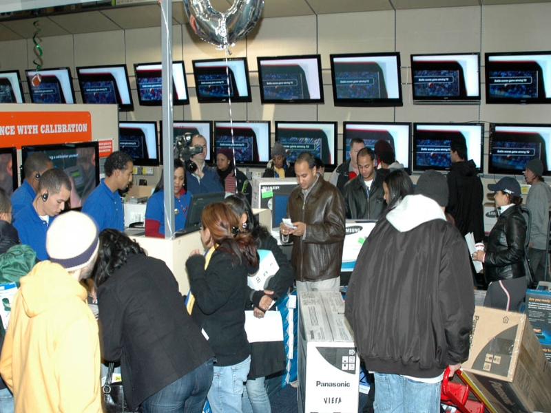 DC USA, Best Buy, Black Friday